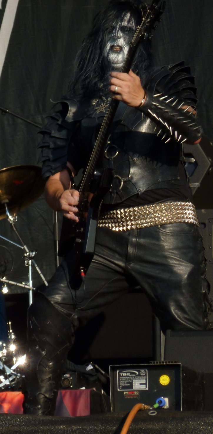 Lord Ahriman, guitarrist of Dark Funeral, performing live at Wacken Open Air (2012).